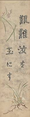 中文（台灣）: 李梅樹作品：Birds character Embroidering，水墨刺繡。